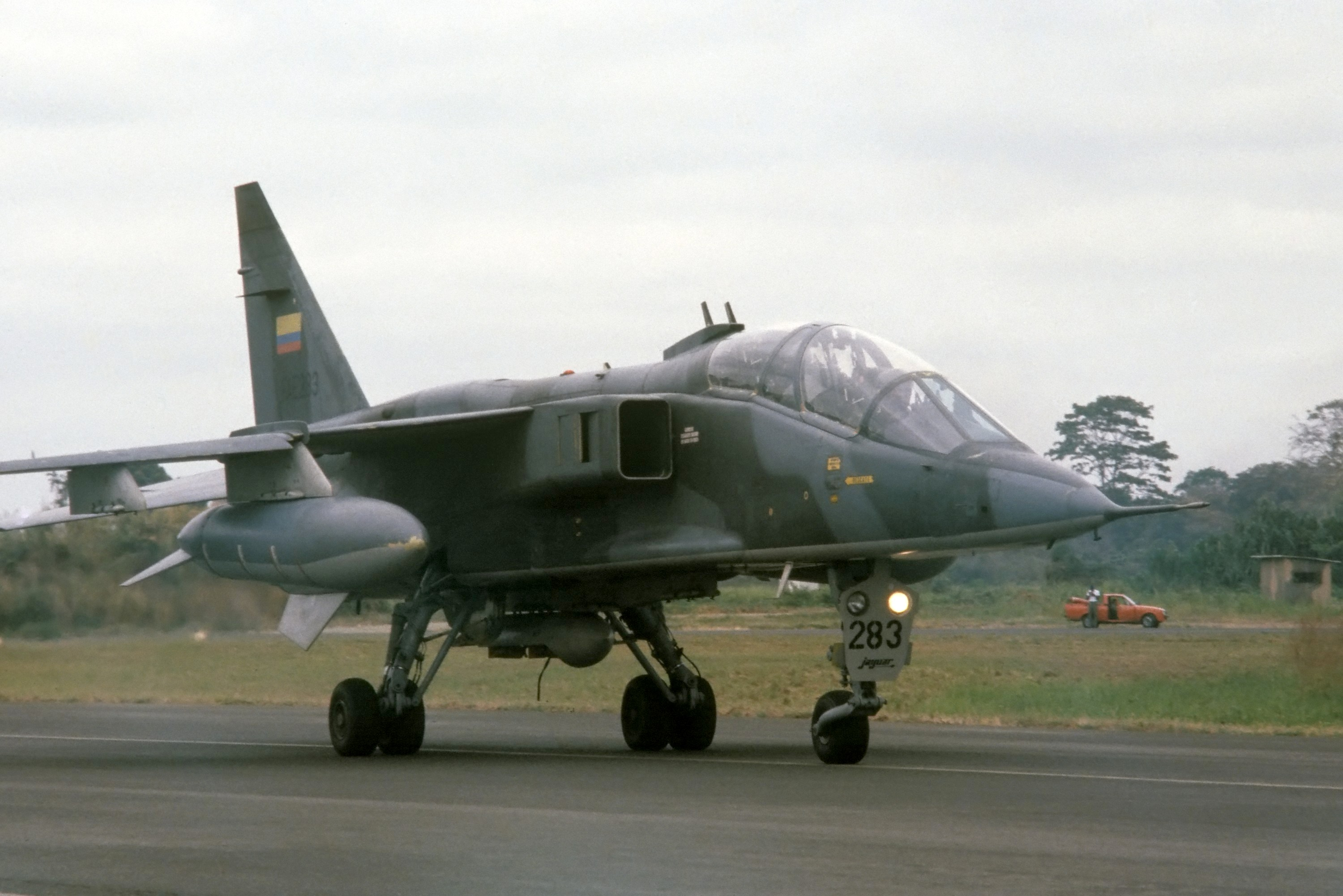 A plane of Ecuador Jaguar EB trainer aircraft (c/n 168/EB1, s/n 283) of Escuadron de Combate 2111 Aguilas taxis on a runway during the joint U.S.-Ecuadoran exercise "Blue Horizon ´86 at Taura Air Base, Ecuador, on 22 August 1986.